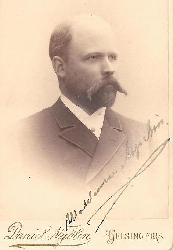 Portrait of architect Waldemar Aspelin, Helsinki, Finland